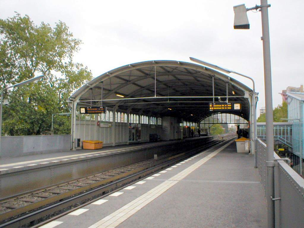 the Berlin U-Bahn station Prinzenstraße, line U1